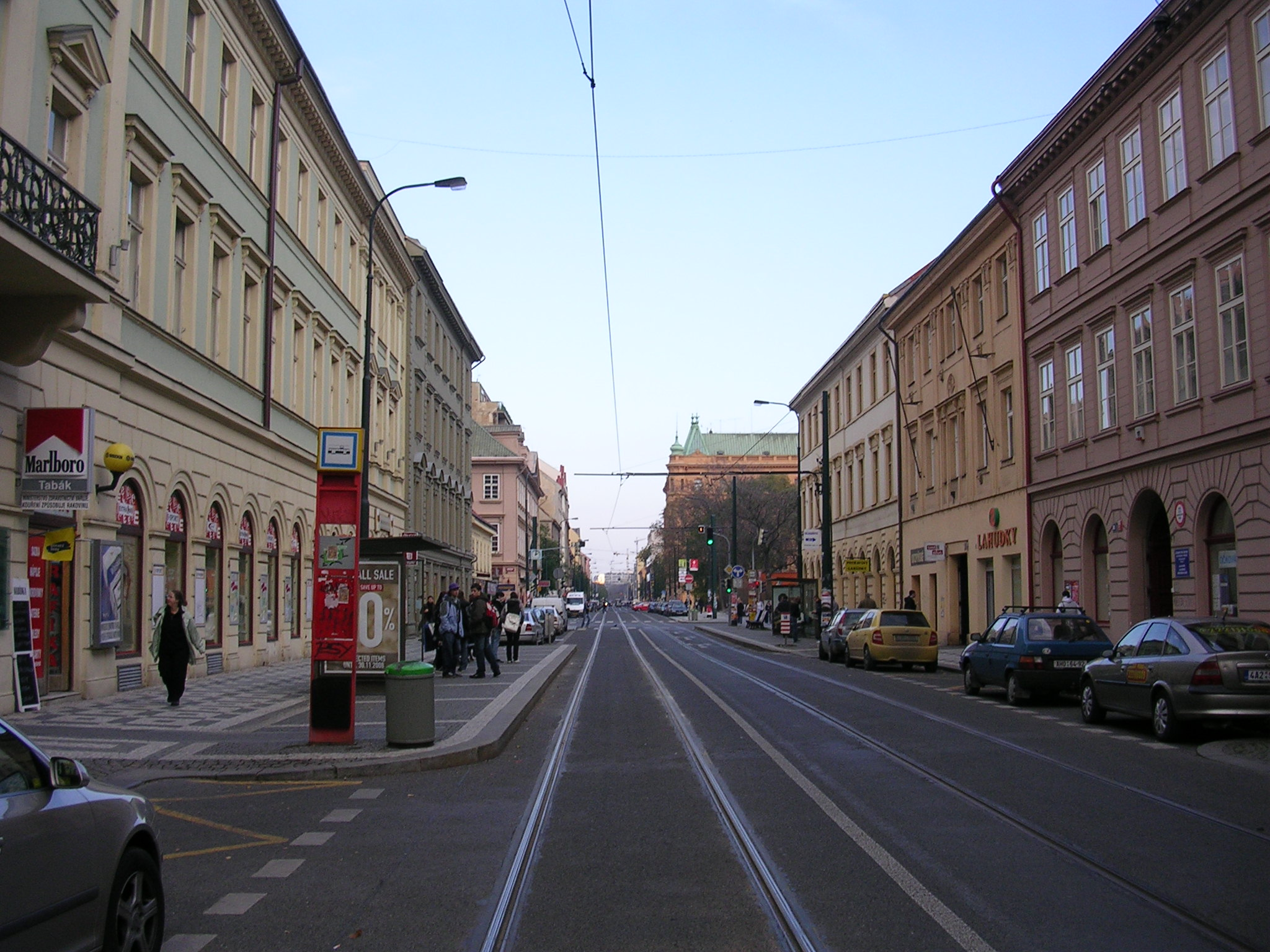 Karlín, Prague.